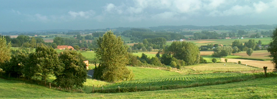 Les collines